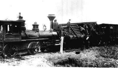 Fulton County Narrow Gauge Railroad